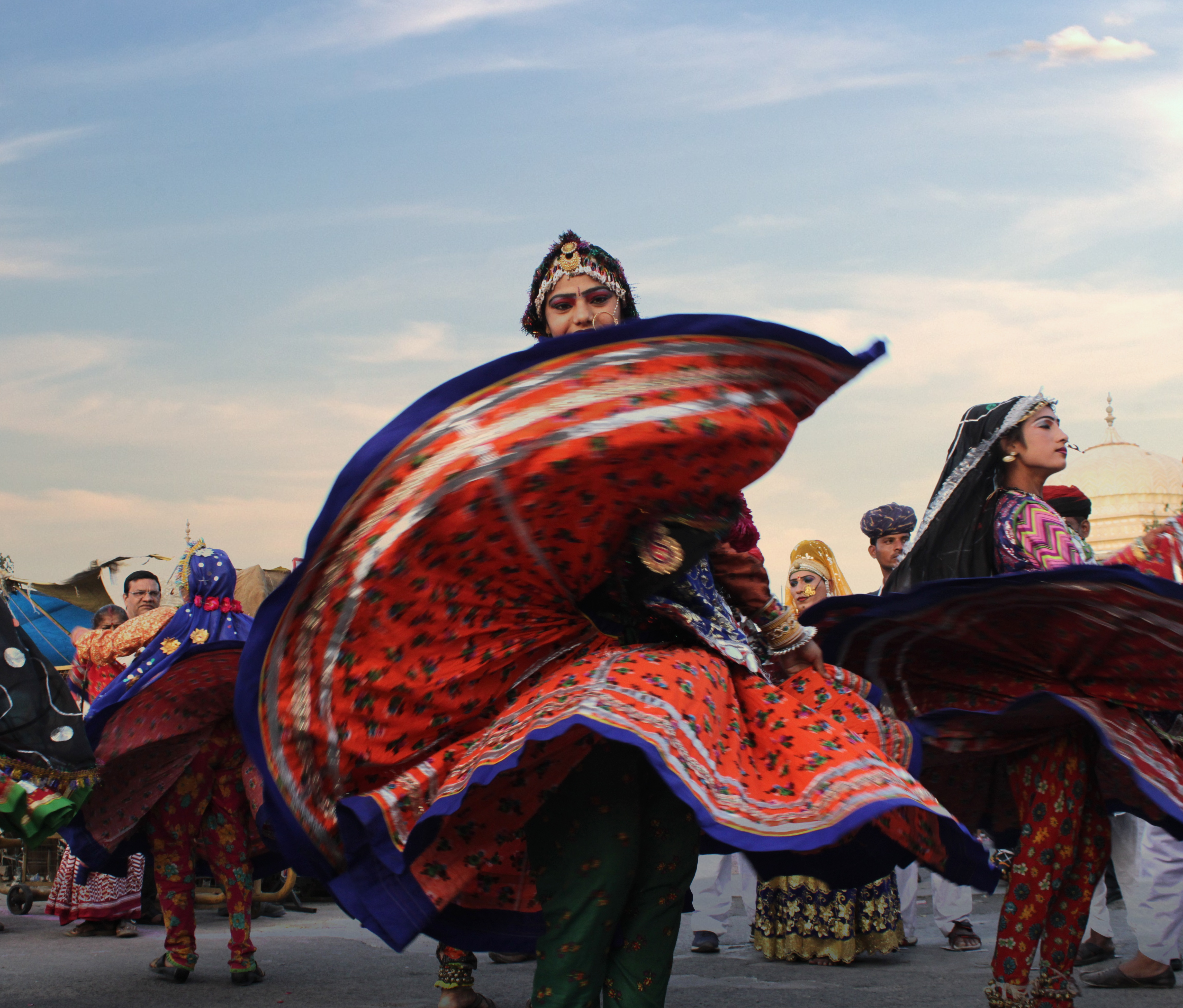 Ghoomar is probably the most popular folk dance in India. This dance form was introduced by the Bhil tribe, and later adopted by the royal communities of Rajasthan, including Rajputs. It is performed by women on special events and festivals, such as the arrival of a newlywed bride at her marital house, Holi and Teej. This photo has been taken in the country: India